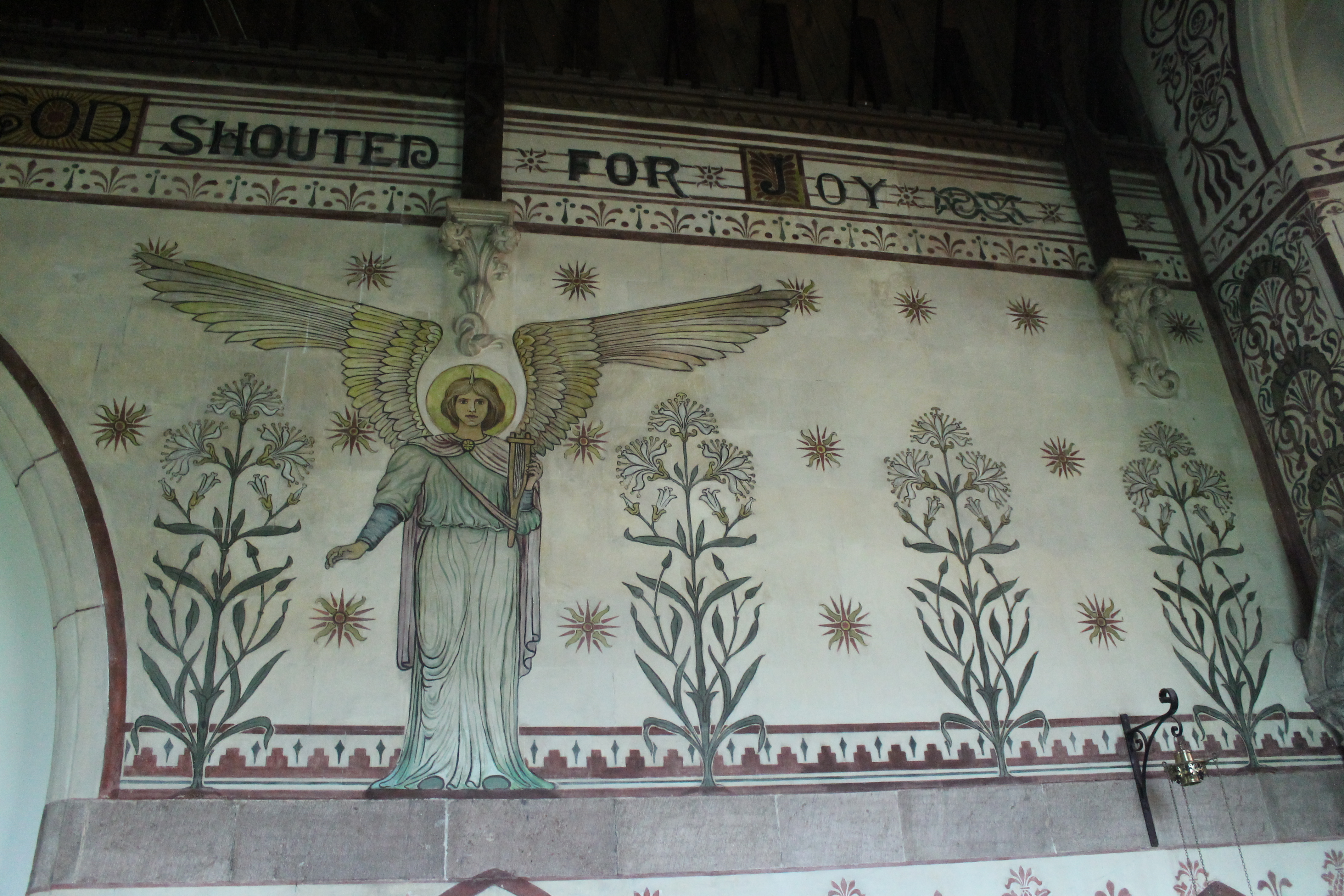 The village of Llandogo, Monmouthshire, Wales, with it's church: St Oudoceus.